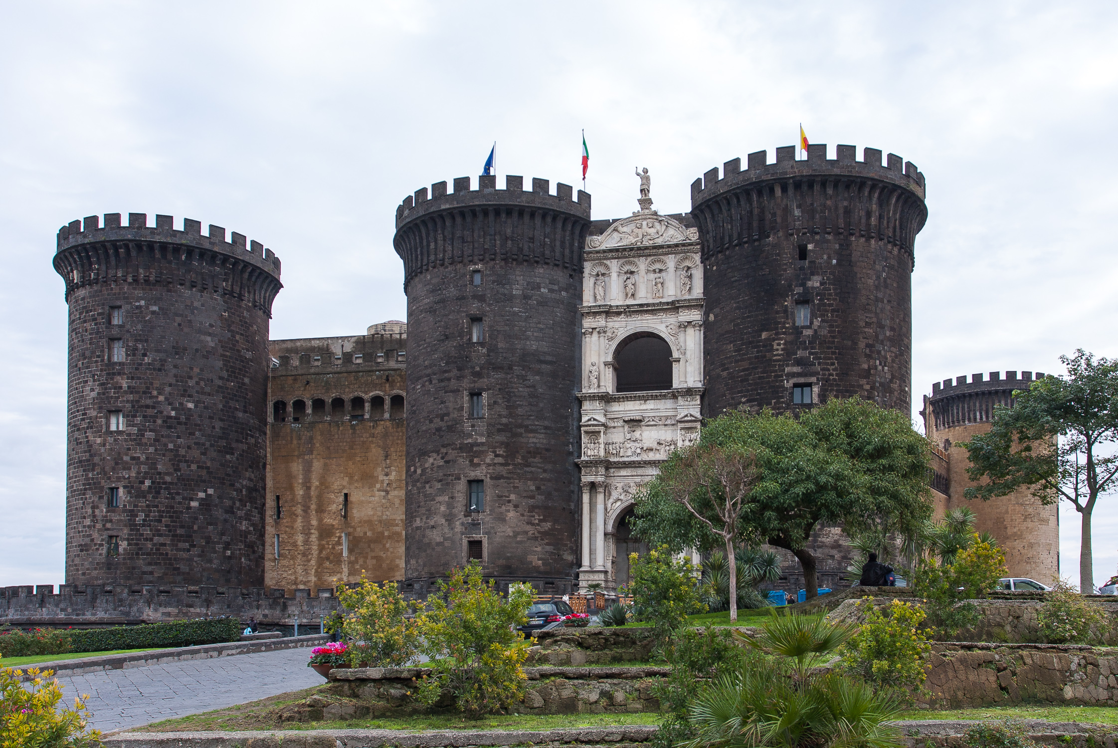 Castel Nuovo / Naples, Italy